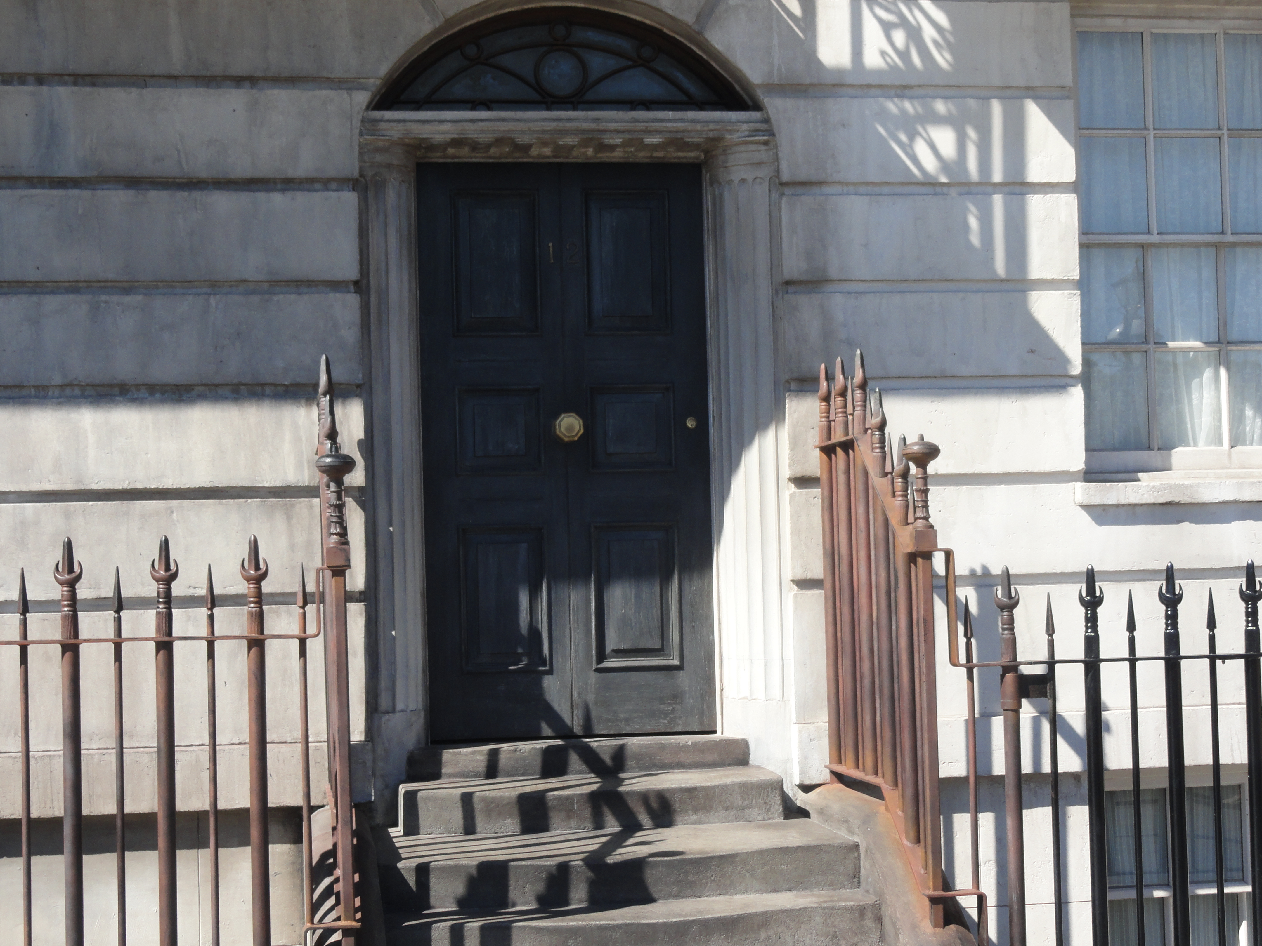 Universal Studios Orlando Diagon Alley from Harry Potter: 12 Grimmauld Place and Kreacher in the window Universal Studios Orlando Diagon Alley from Harry Potter: 12 Grimmauld Place and Kreacher in the window